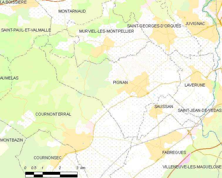 Map commune FR insee code 34202.png - Pignan